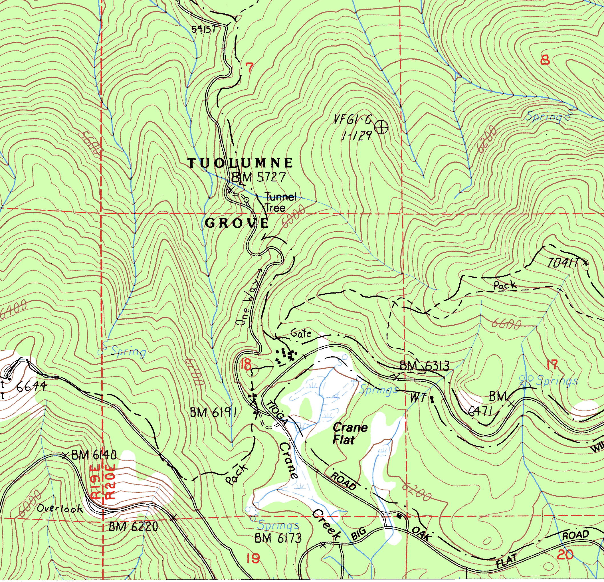 Topographic Map of the Tuolumne Grove Area